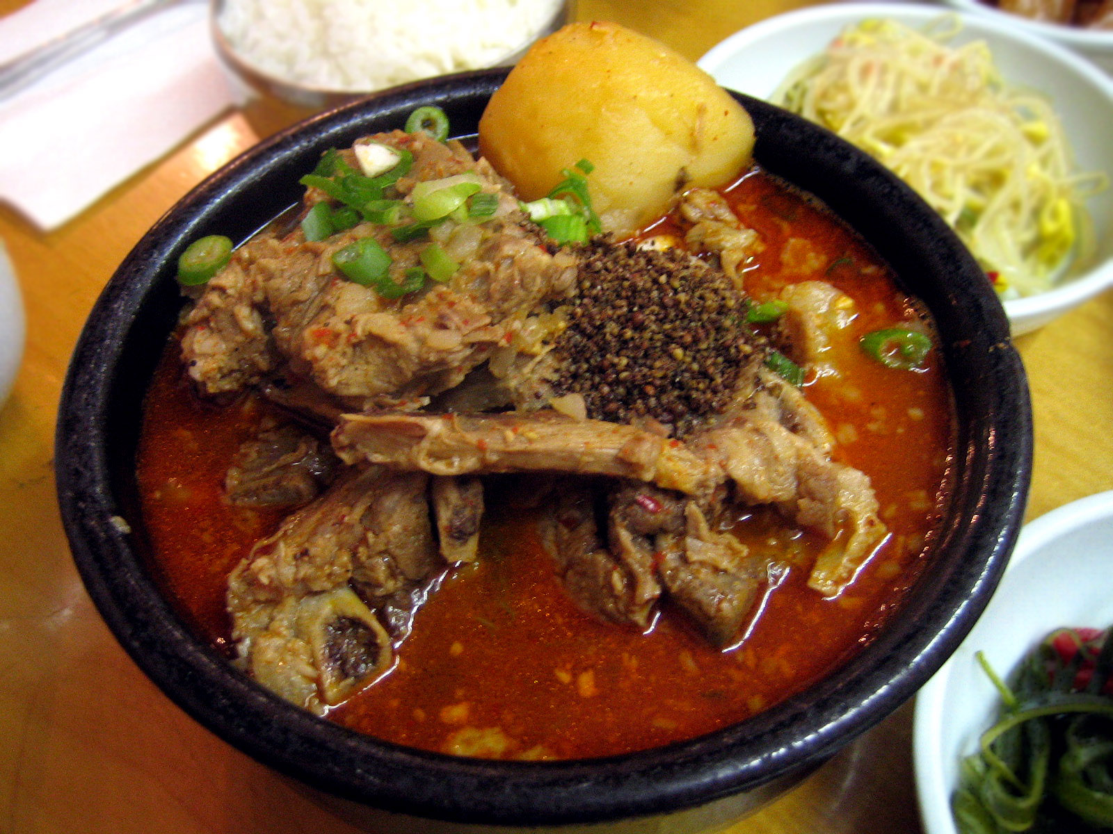 감자탕, Gamjatang(pork bone stew with potato, sesame and vegetable)